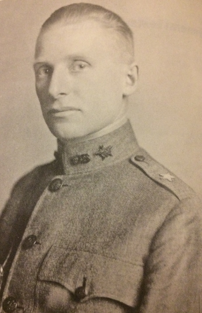 Lesley J. McNair as an American Expeditionary Forces Brigadier General, 1919.